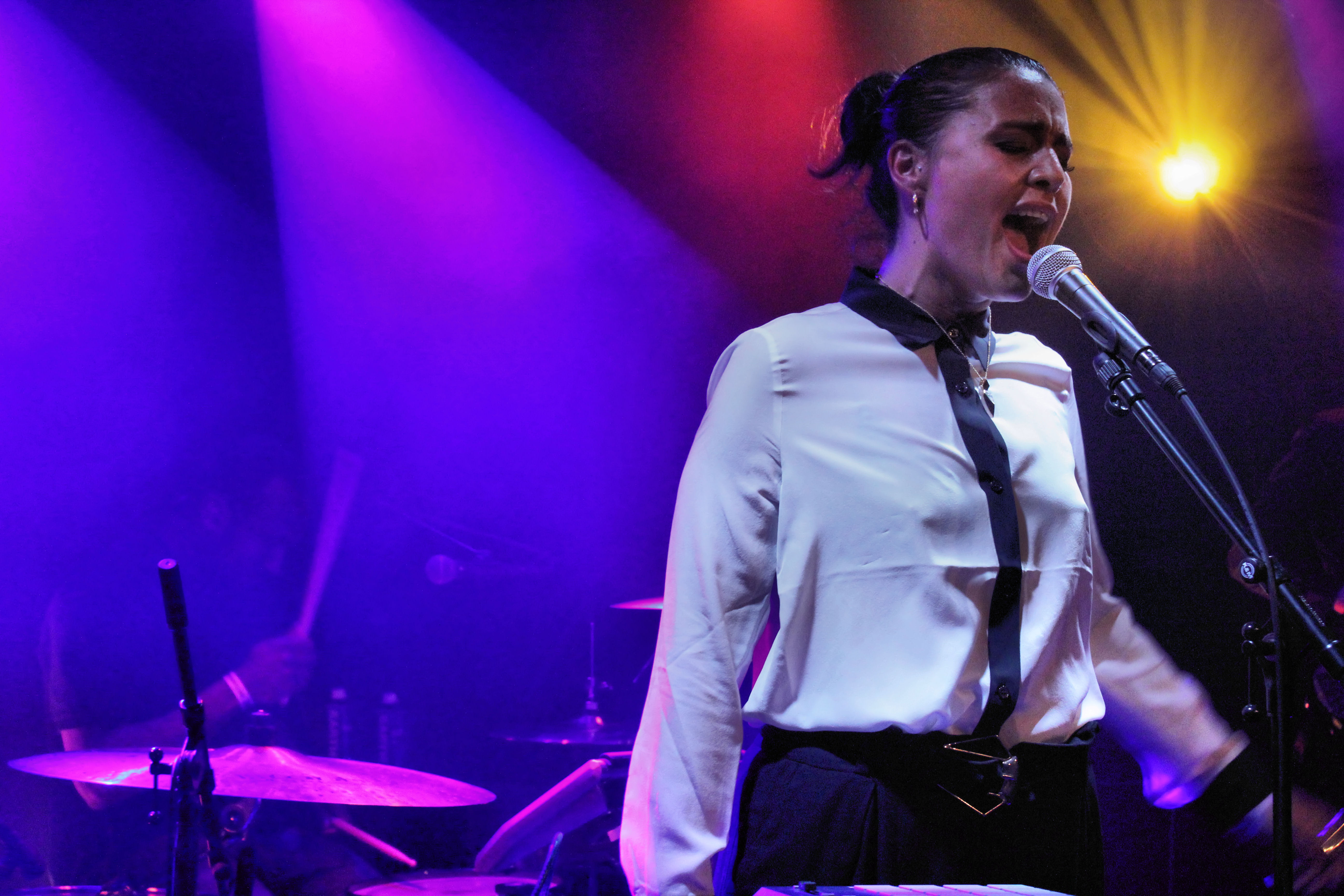 Vocalist Jessie Ware performing on 13 January 2012 on the stage of Simplon Up theatre at the Eurosonic 2012 Festival.